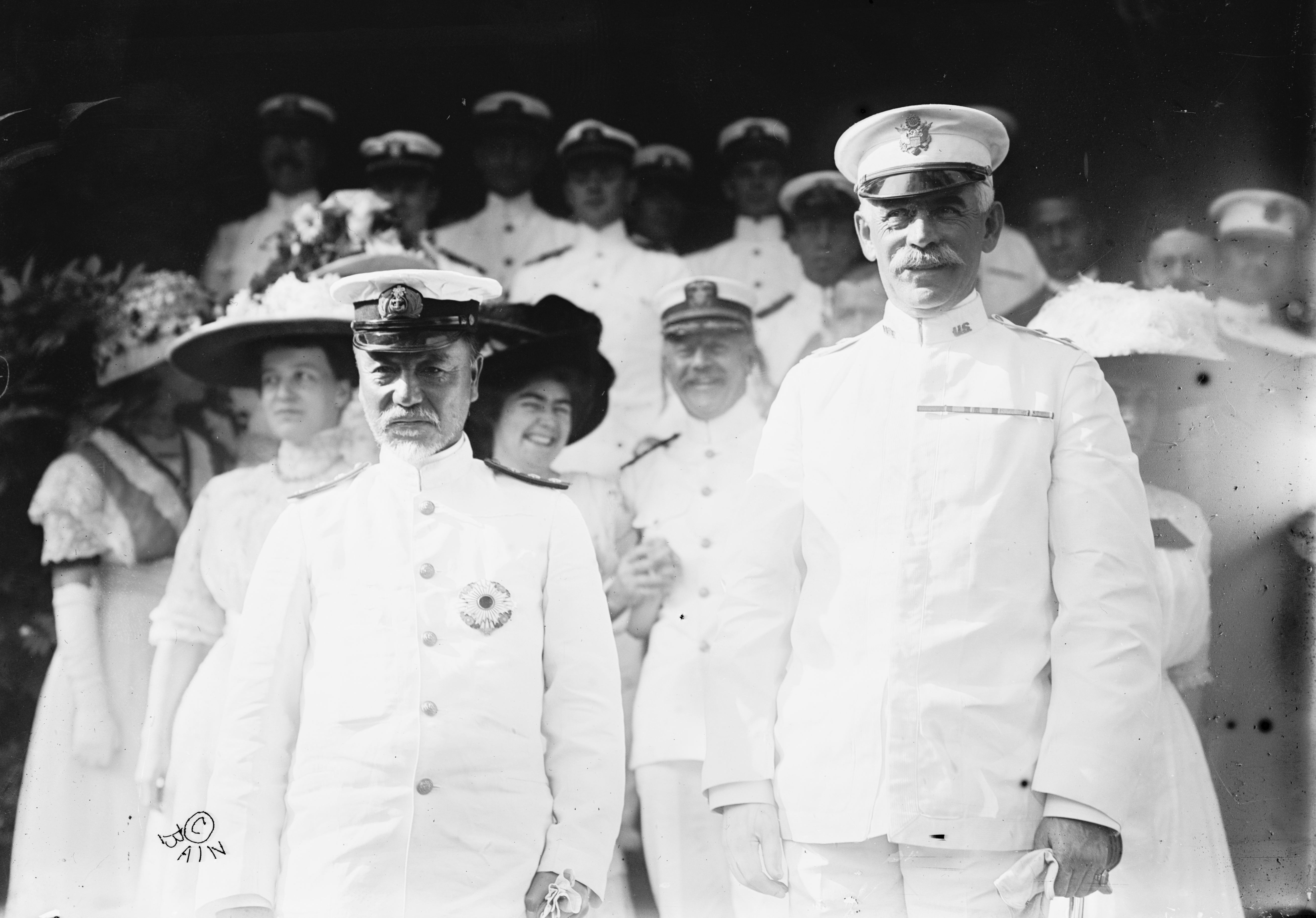 Togo at West Point with General Barry. Photo shows Japanese naval hero Admiral Togo Heihachiro (left) with Major General Thomas Henry Barry, superintendent of the U.S. Military Academy which honored Admiral Togo at West Point, New York, in August 1911. Small group of unidentified women and uniformed soldiers seen in background.